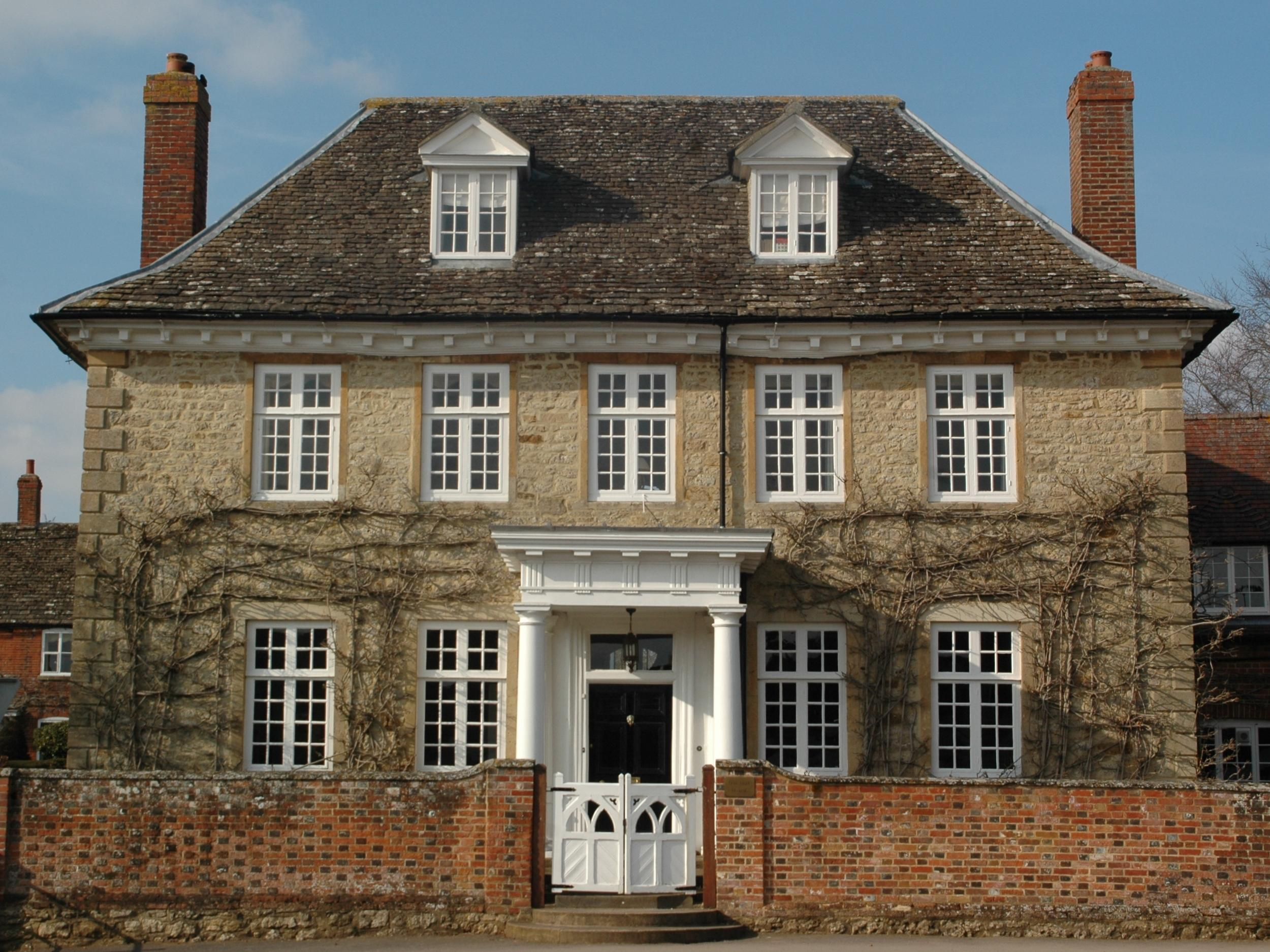 Elm Tree House, Shrivenham, Vale of White Horse, England